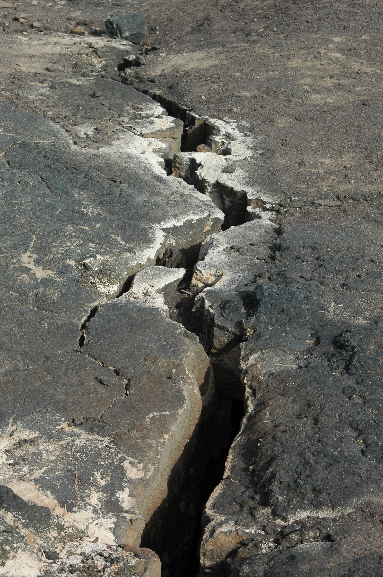 Left:Somalian plate. Right: Nubian plate.